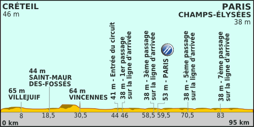 Profil of the 2nd stage of the Tour de France 2011